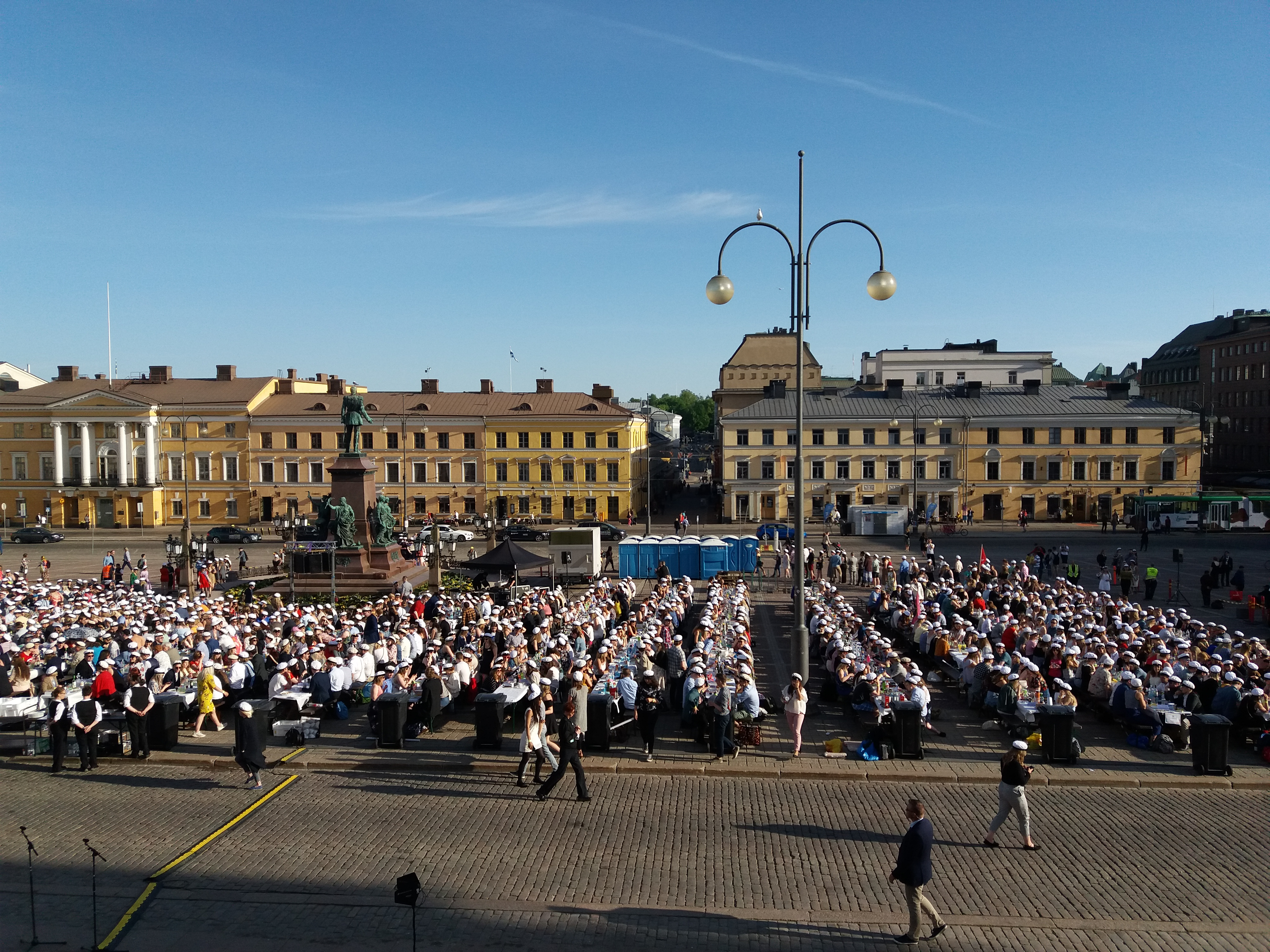 Suursitsit, a Nordic student party in Senaatintori, Helsinki